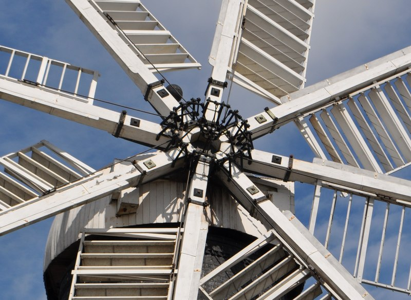 Heckington Windmill - Spider, near to Heckington, Lincolnshire, Great Britain. A closeup of the spider mechanism used on the patent sails (8).